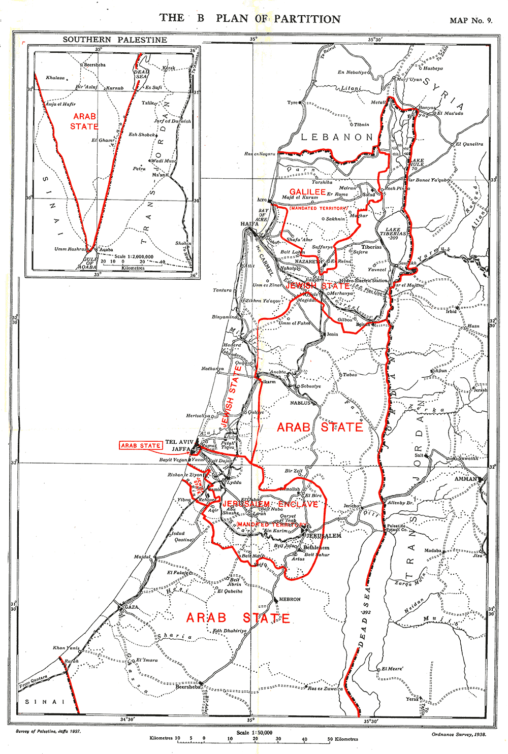 Palestine Partition Commission (Woodhead Commission), partition proposal B.